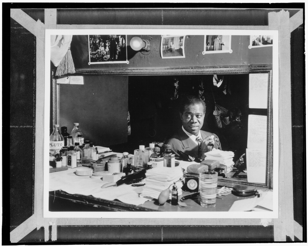 Louis Armstrong, Aquarium, New York